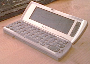 Original description: Working with an IBM TransNote and Nokie 9210i. | IBM TransNote in the background.